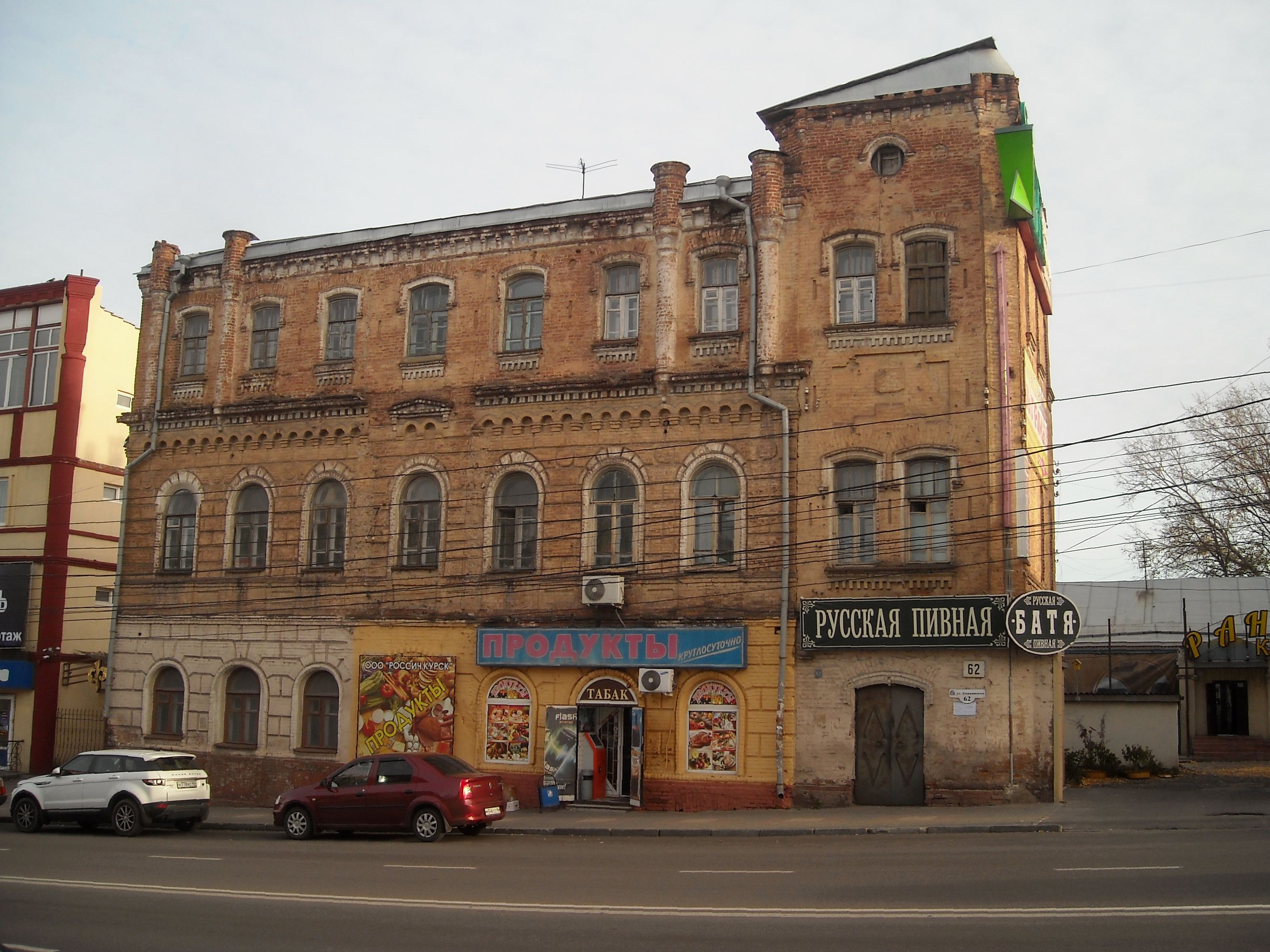 House of nobleman V.V. Tolubeev , on the Dzerzhinsky street , 62 (former Kherson street ) in Kursk .